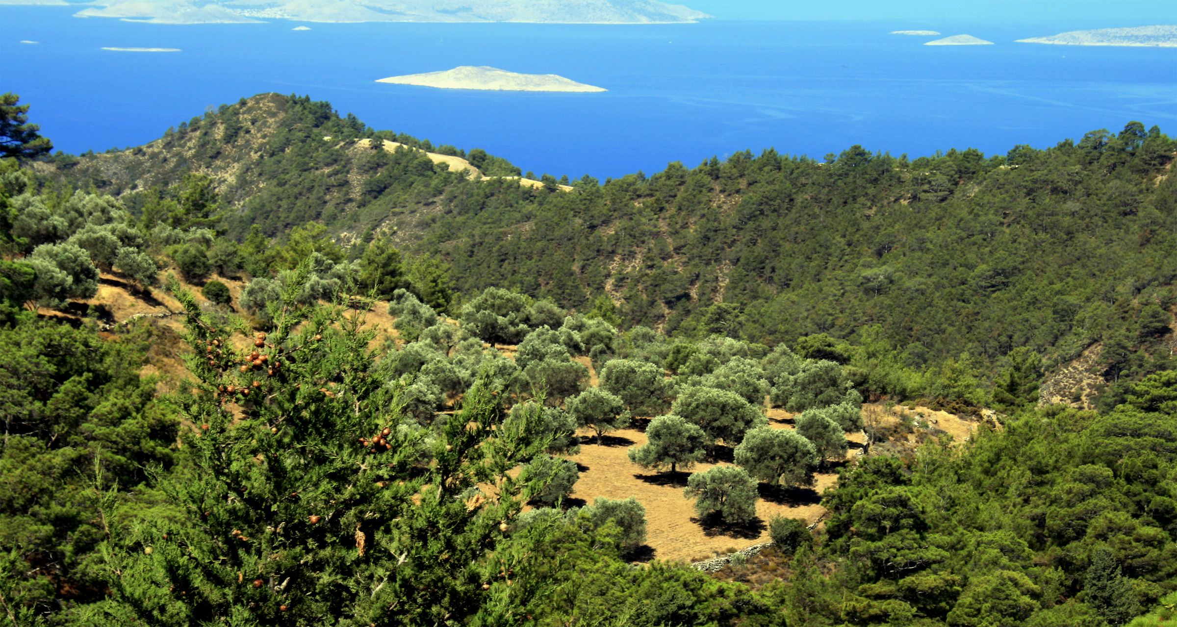 Olive grove on Rhodes island, Greece